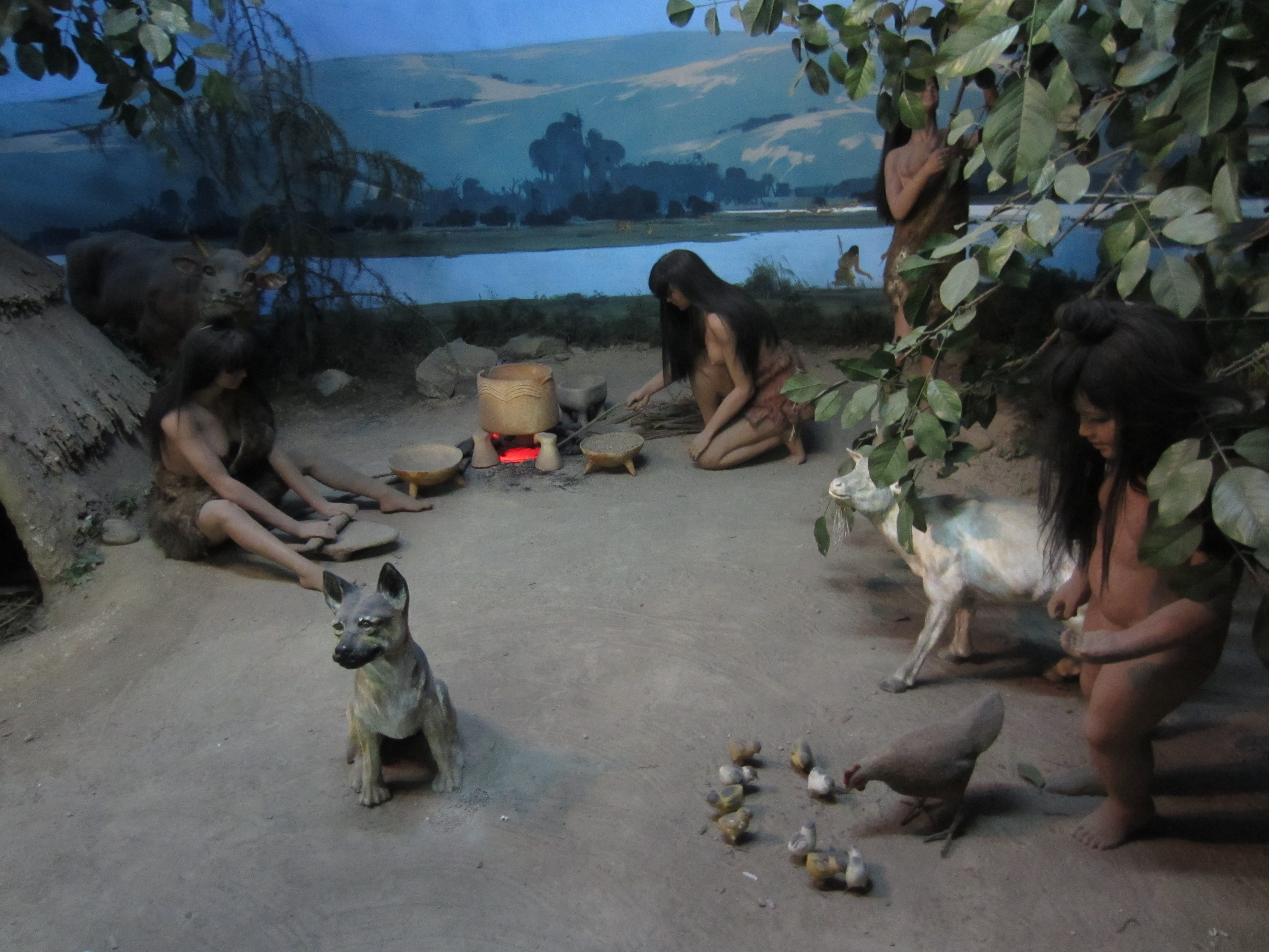 Handan Museum to restore the living environment of the ancestors of the Cishan culture.